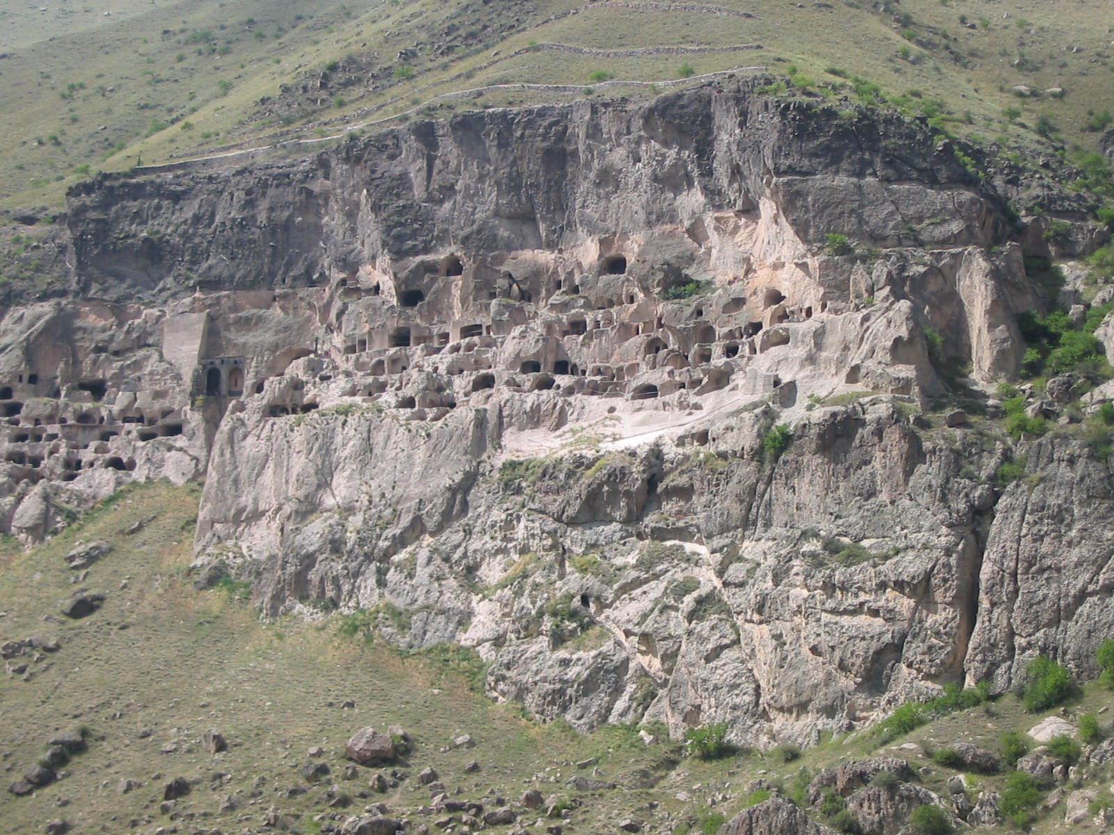 Vardzia in Georgia